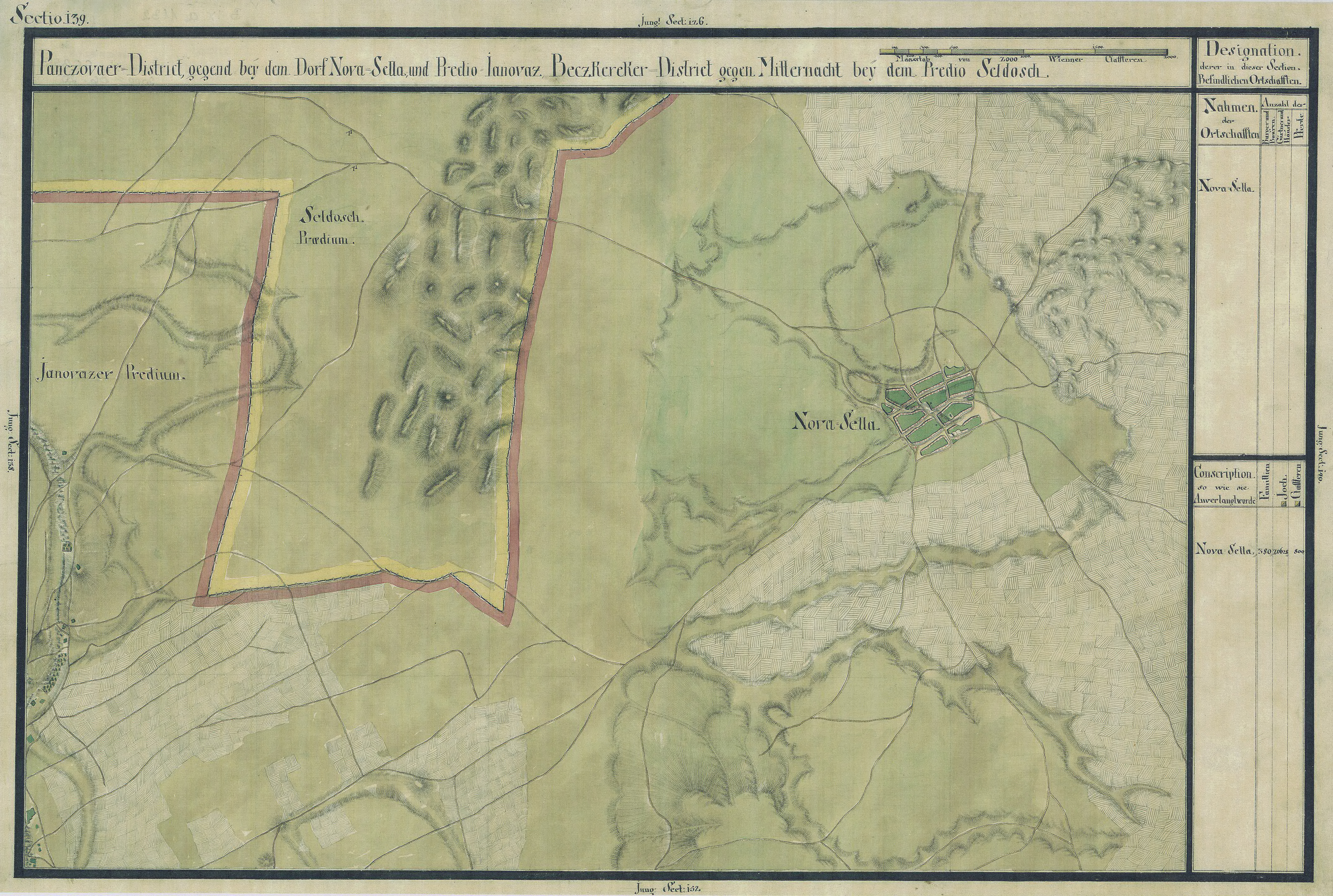 The Banat region in the cadastral maps: Josephinische Landesaufnahme, 1769-72. Josephinische Landaufnahme pg139